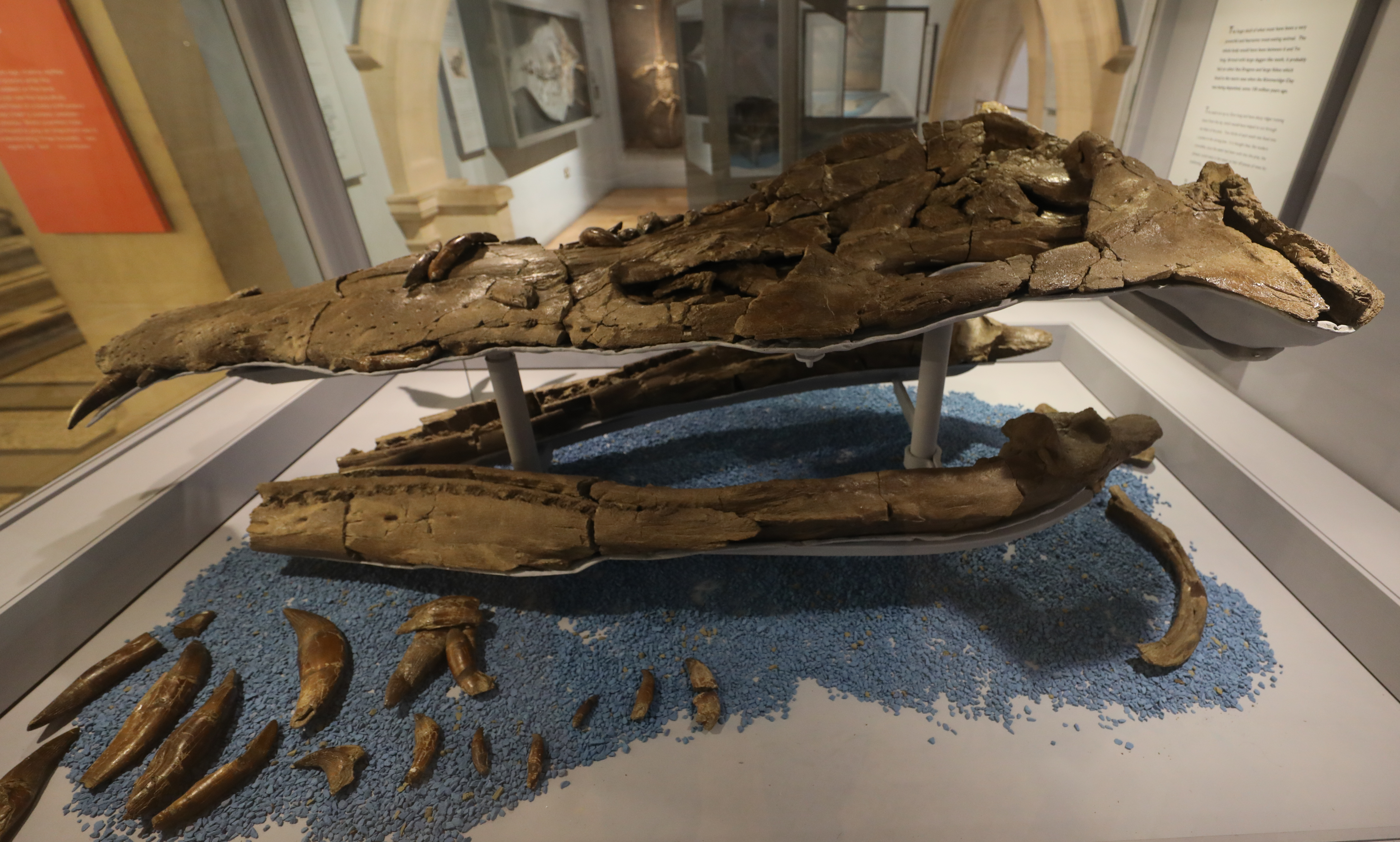 Photo of a Pliosaurus westburyensis skull (BRSMG_cc332) from the Westbury specimen